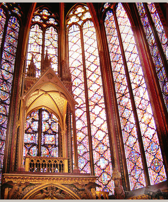 Interior of the Sainte-Chapelle, Paris.